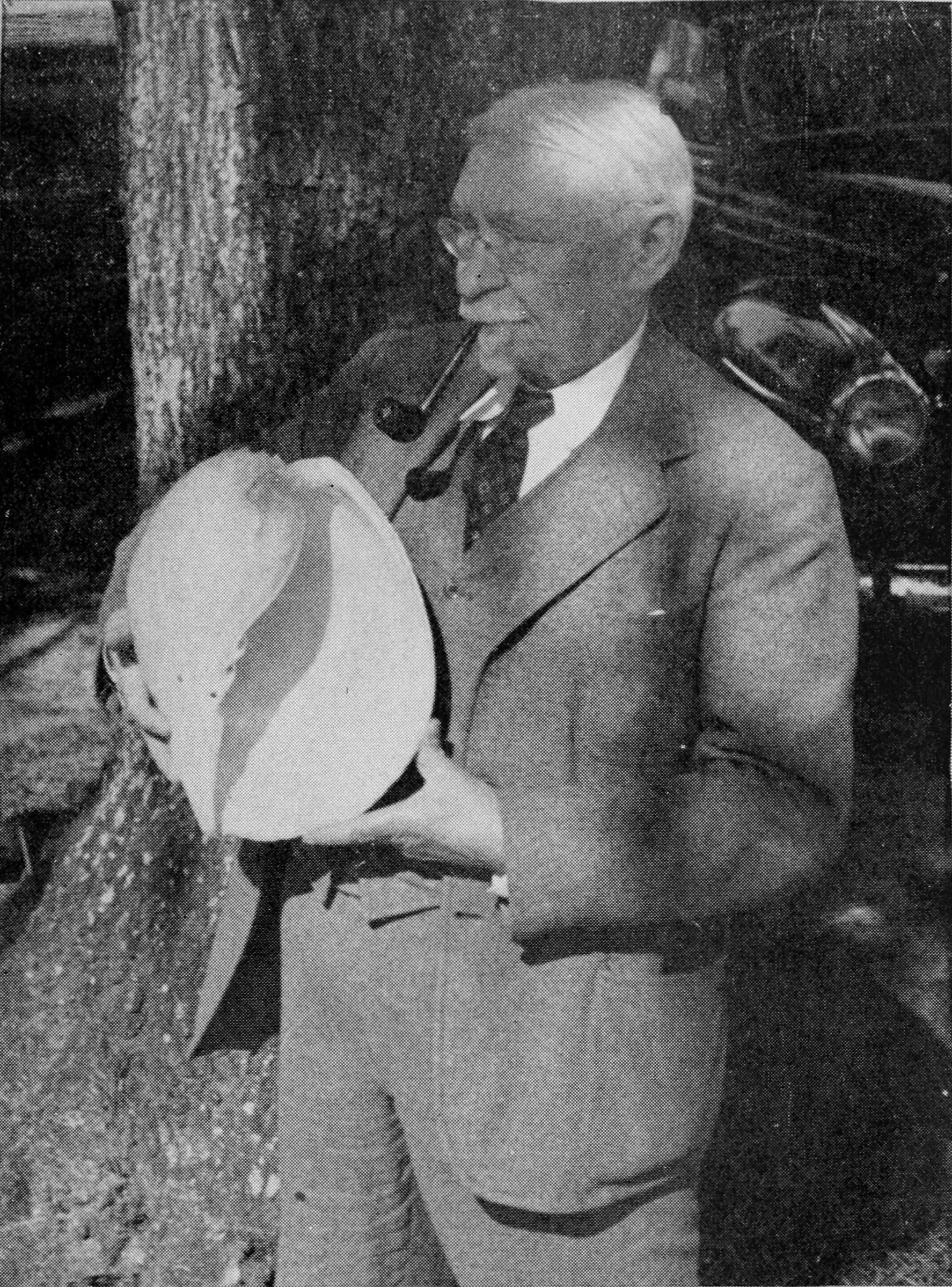 Henry Augustus Pilsbry (1862-1957) in "Wintes Port"(?), Florida, January 1942.